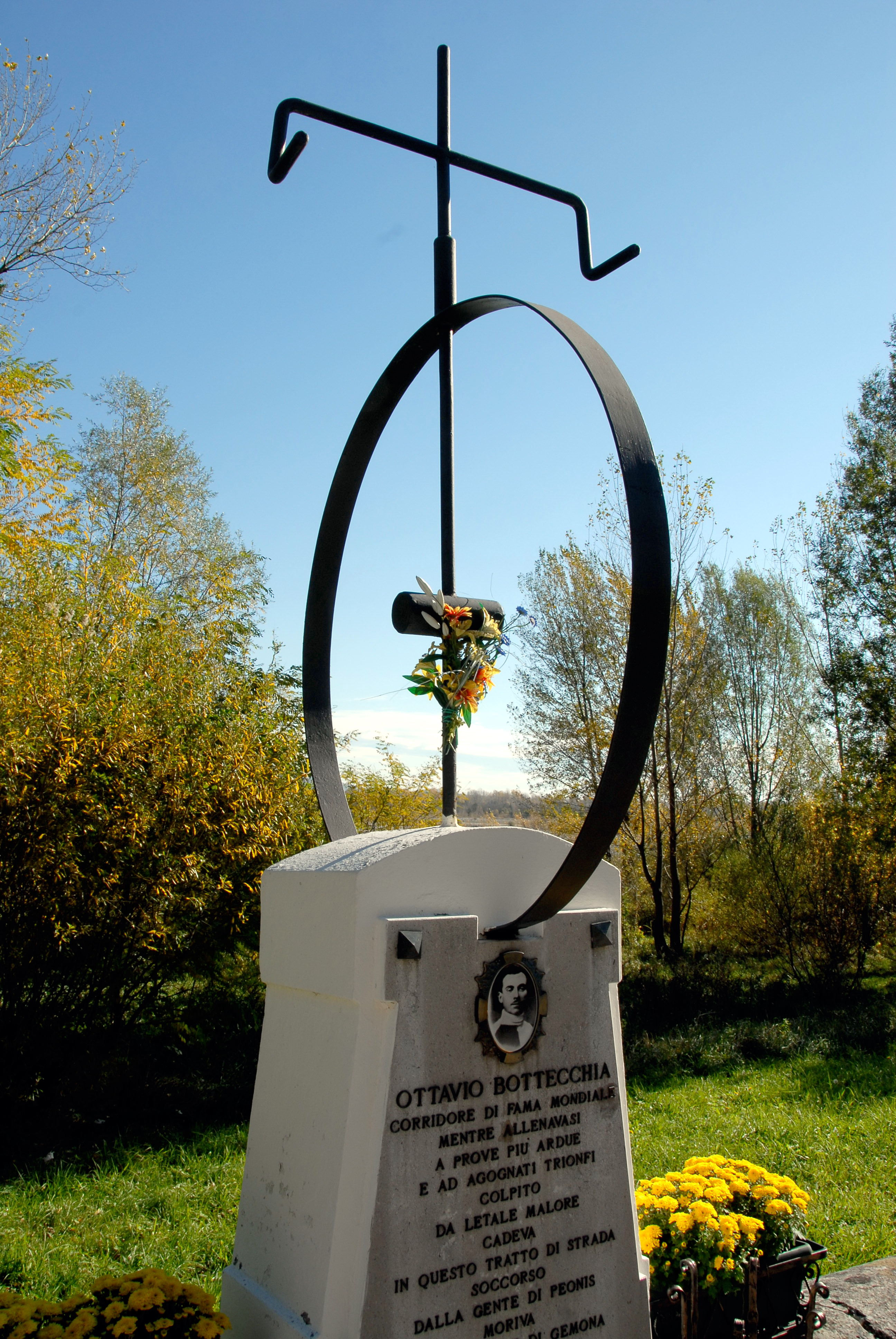 Monument of Ottavio Bottecchia, world famous Italian racing cyclist, in the Via Bottecchia at Trasaghis, province of Udine, region Friuli Venezia-Giulia, Italy